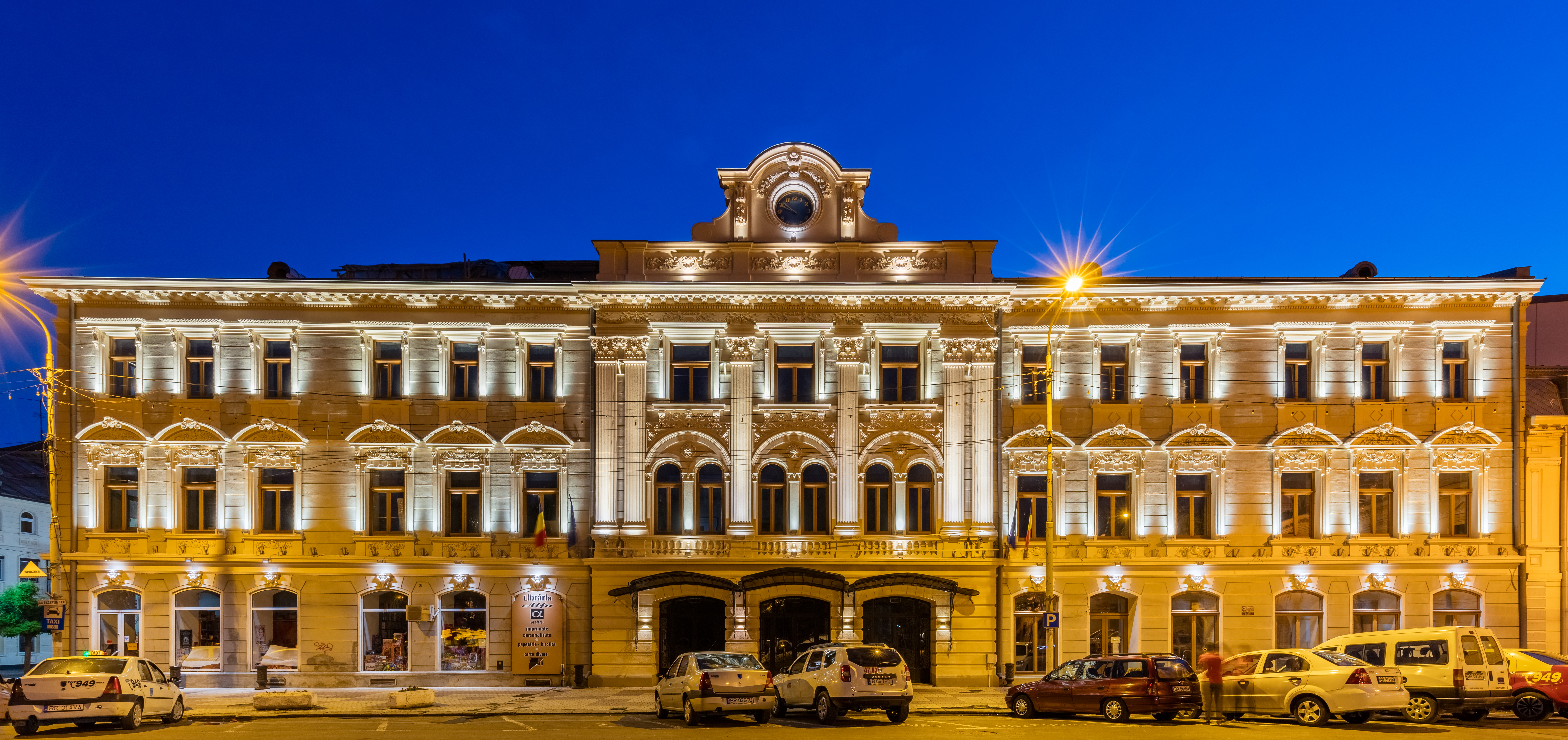 Maria Filotti Theatre, Braila, Romania